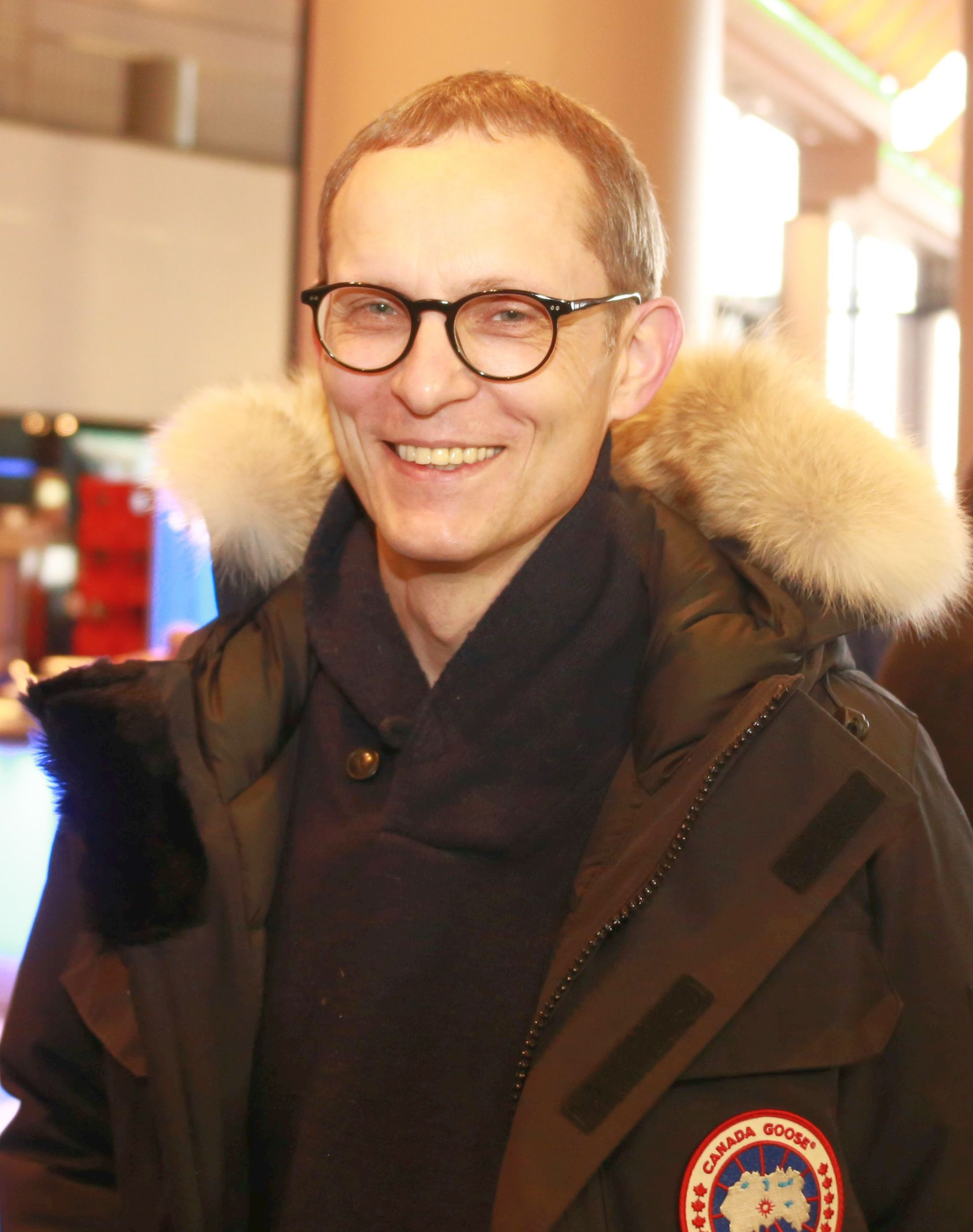 cropped from File:Günter Lachmann und Frauke Petry2015.jpg, showing only one person.